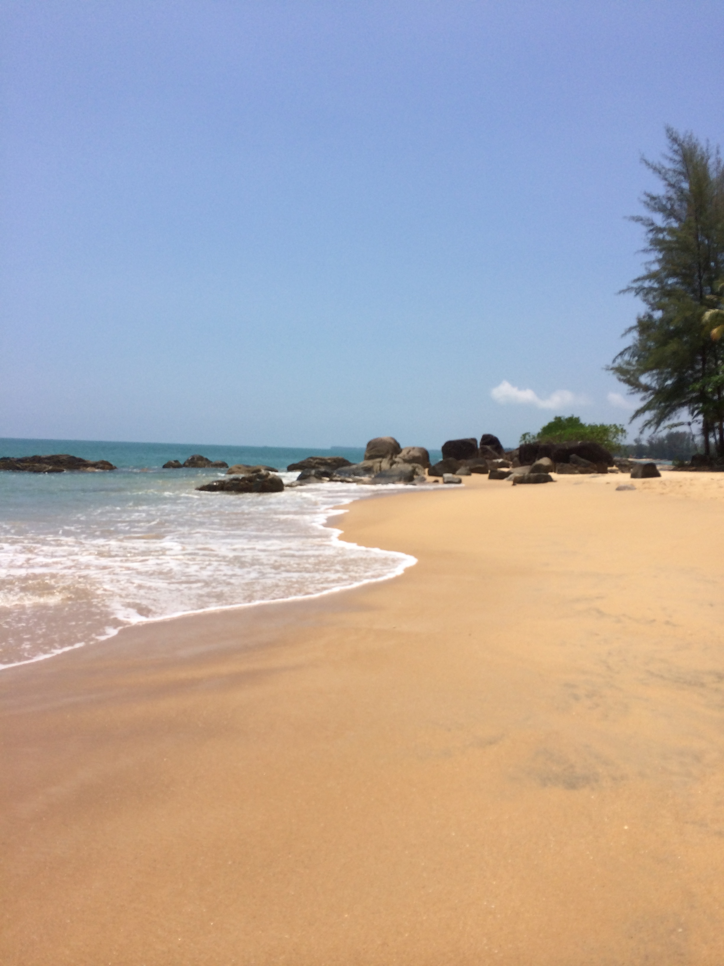 Khukkhak beach in Khao Lak, Thailand